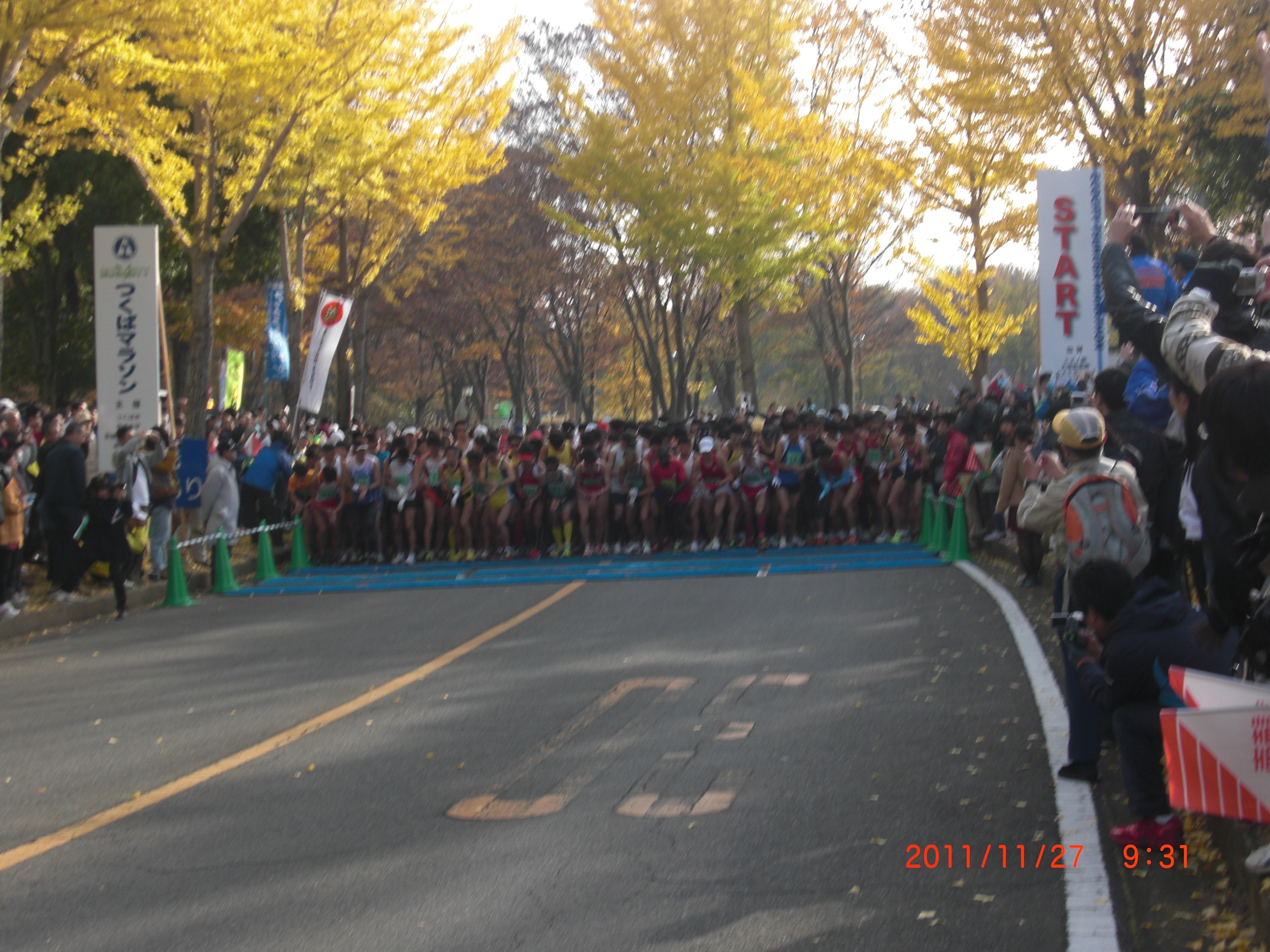 This is the moment of 31th Eco City Tsukuba Marathon start.